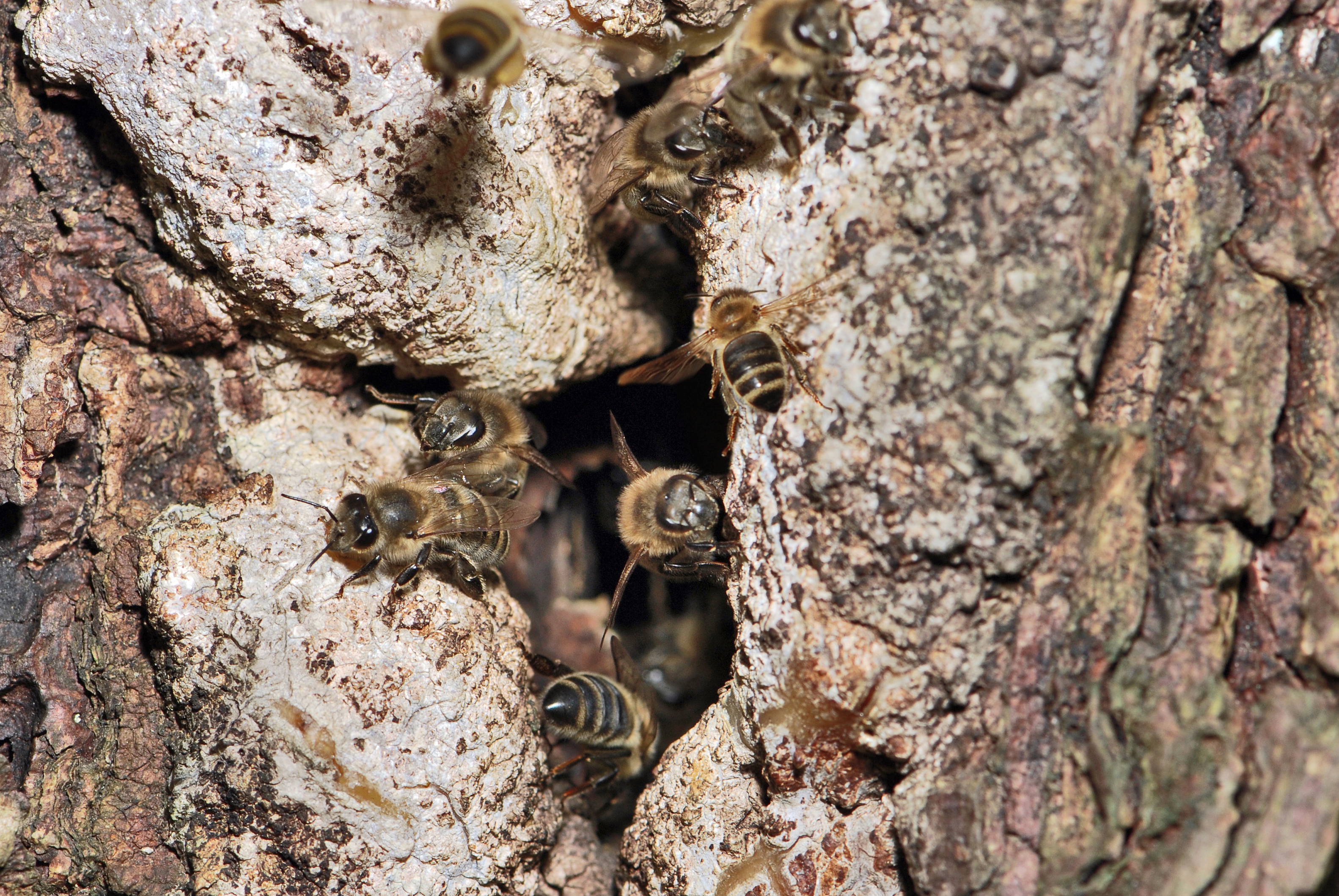 The European honey bee or western honey bee (Apis mellifera) is a species of honey bee. The specimen in this picture are of the subspecies Apis mellifera mellifera at the entrance to their nest inside of a hollow Picea abies tree.